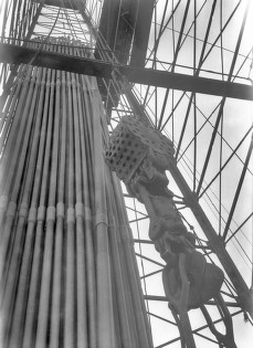 A closeup of the pulley of an oil well in Brazoria county